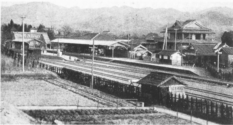 Japanese National Railways Koyaguchi Station in the end of Meiji era (around 1910))